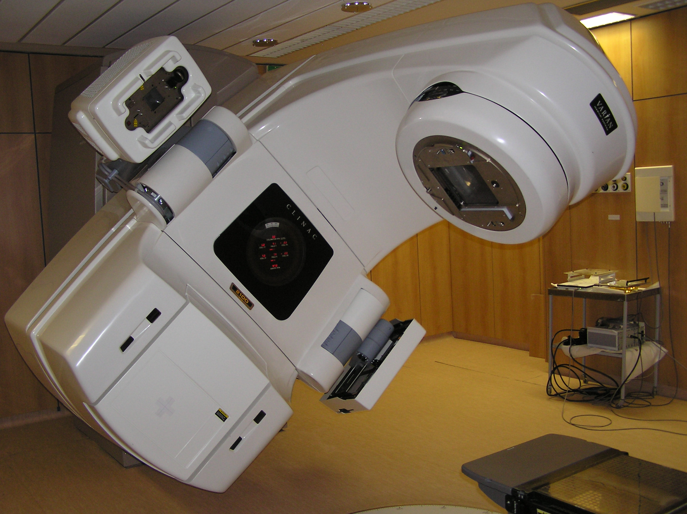 Linear accelerator Clinac, FN Motol, Prague, 2006-12-01